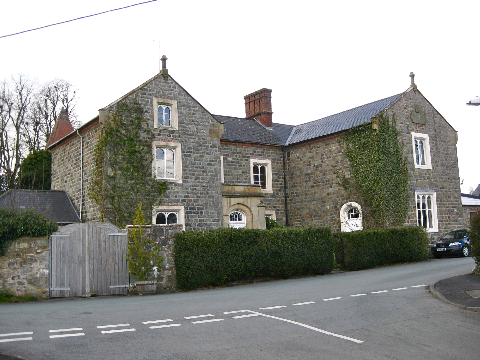 Old School, Berriew' 1819